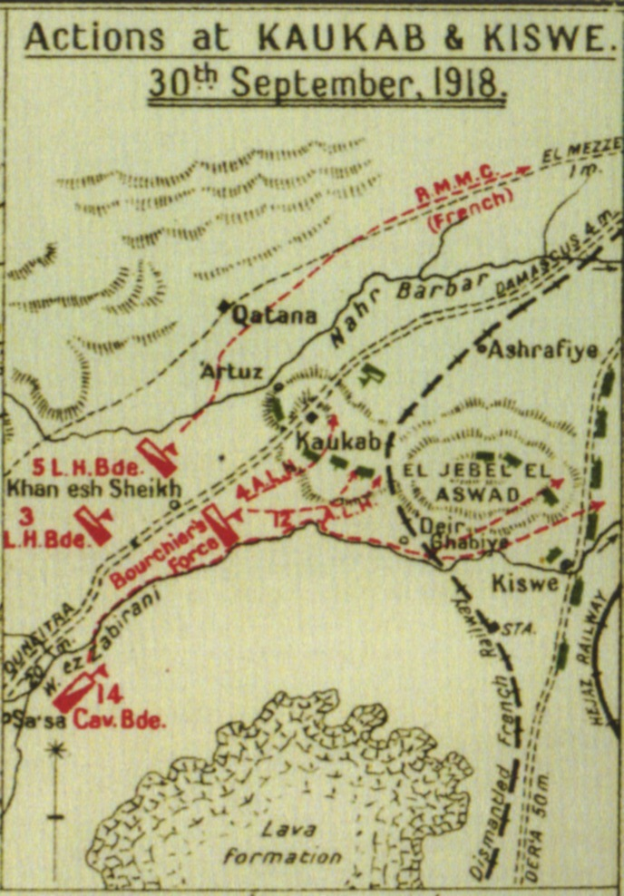 Falls Sketch Map 39 detail shows attacks at Kaukab and Kiswe Other information Crown copyright access unrestricted